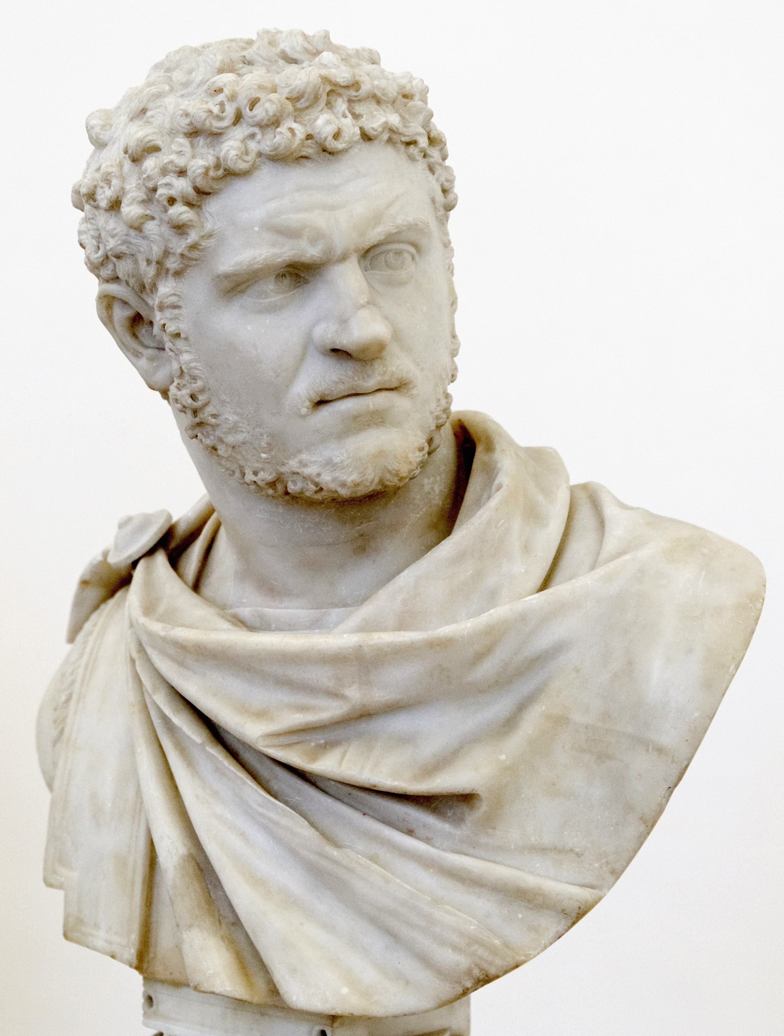 Portrait of the emperor Caracalla from a statue reworked as a bust.